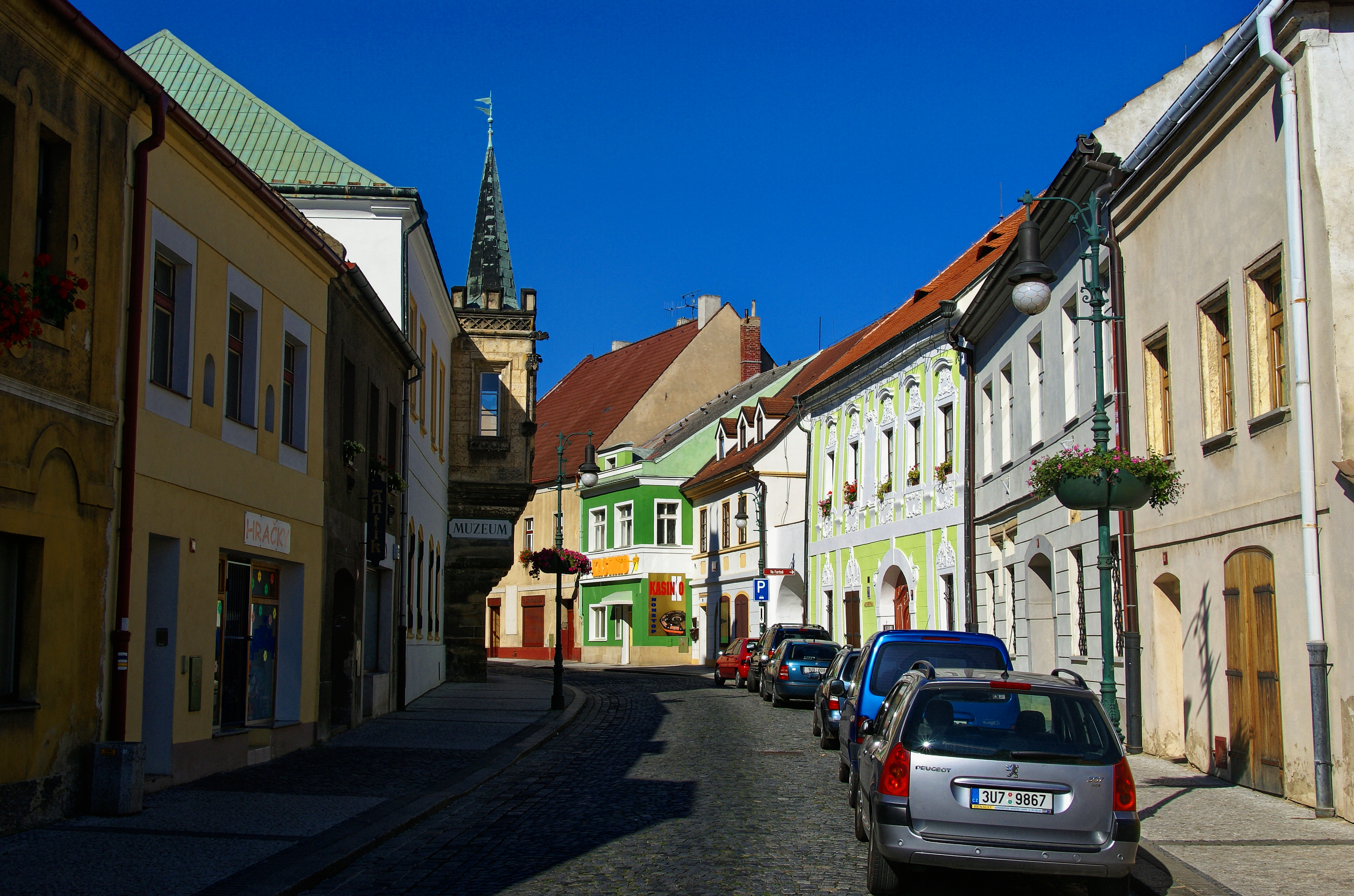 Louny - Pivovarská - View West